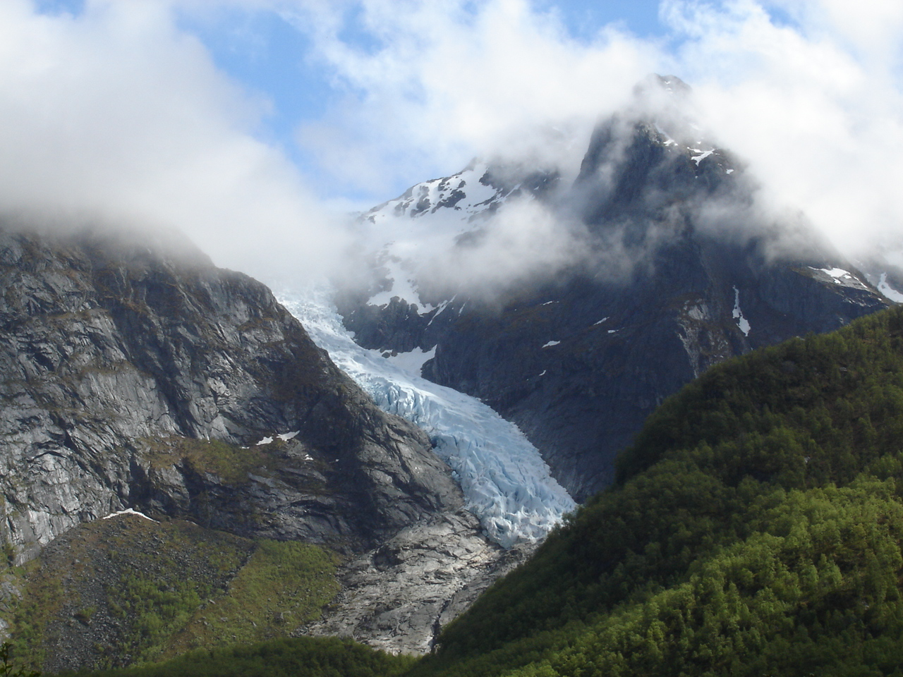 Folgefonna's ice front Bondhusbreen & Mount Fynderdalshorga, Norway